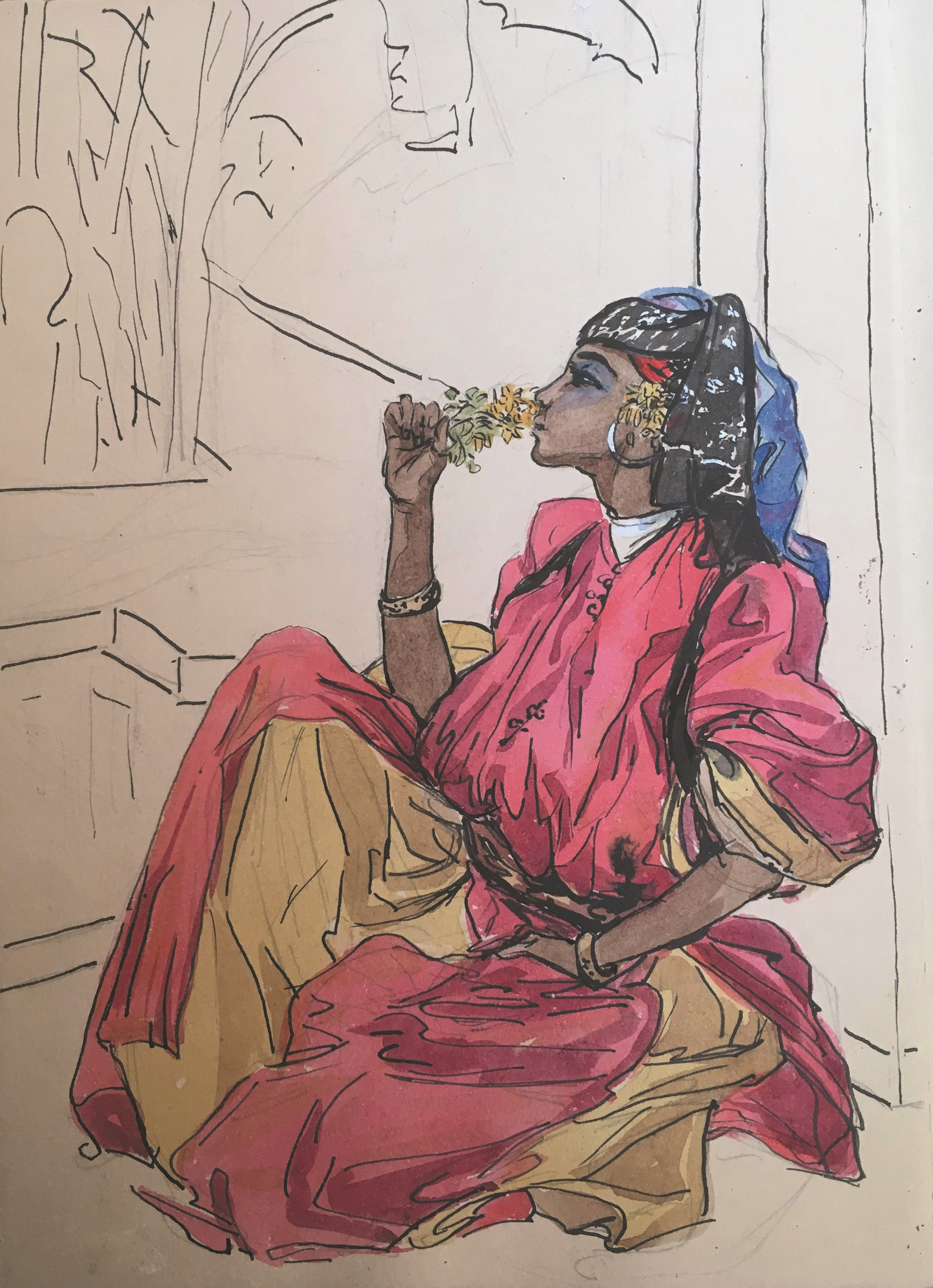 One of twenty gouaches by Aline Réveillaud de Lens from his Moroccan Women collection